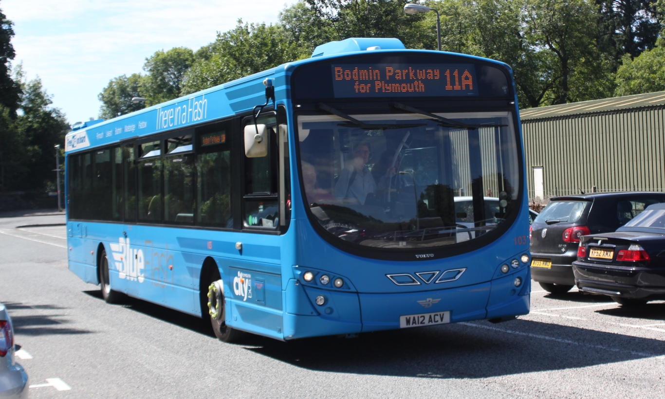 Plymouth CityBus 103, a Wright Eclipse registered WA12ACV, at Bodmin Parkway railway station with a service from Wadebridge to Plymouth.